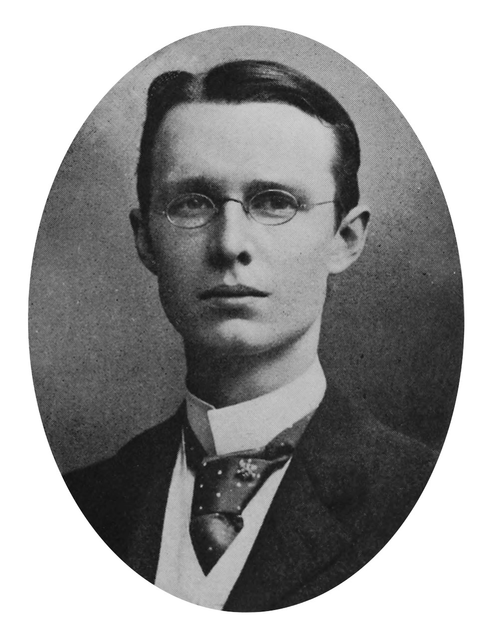 John V. Dahlgren, son of Admiral Dahlgren, circa 1897.